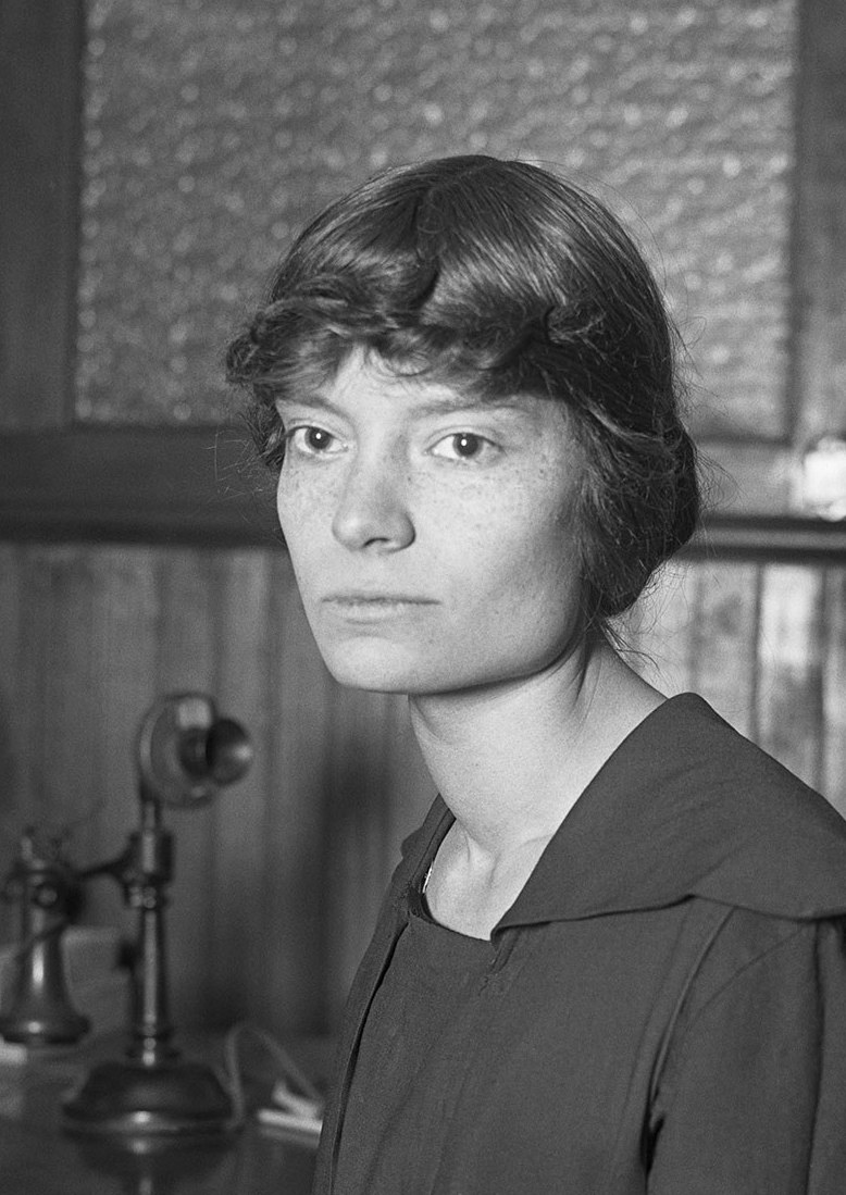 Dorothy Day, American journalist, social activist and Catholic convert.